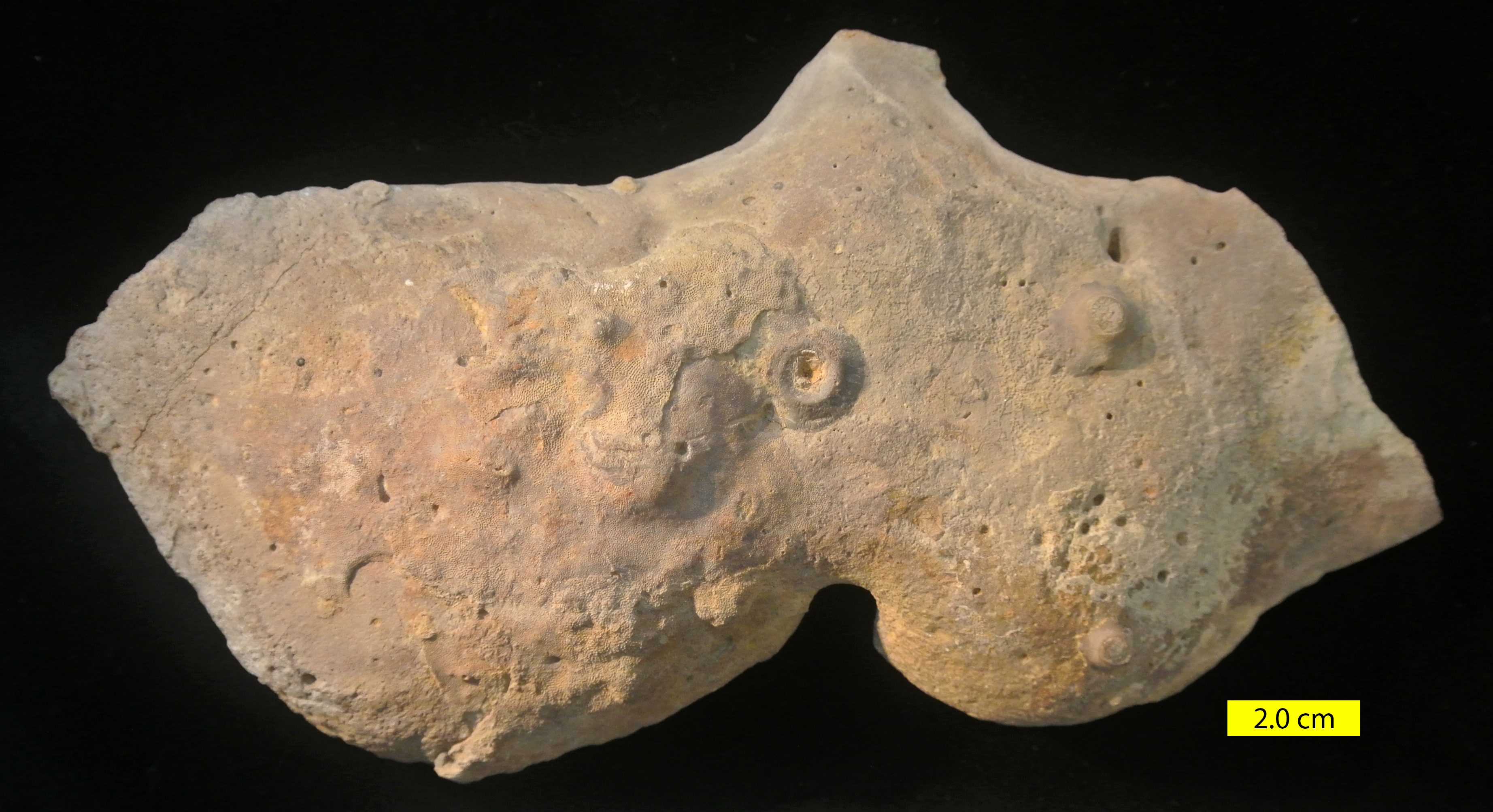 Hiatus concretion encrusted with crinoids and bryozoans; Kope Formation (Upper Ordovician), Gunpowder Creek, Kentucky.